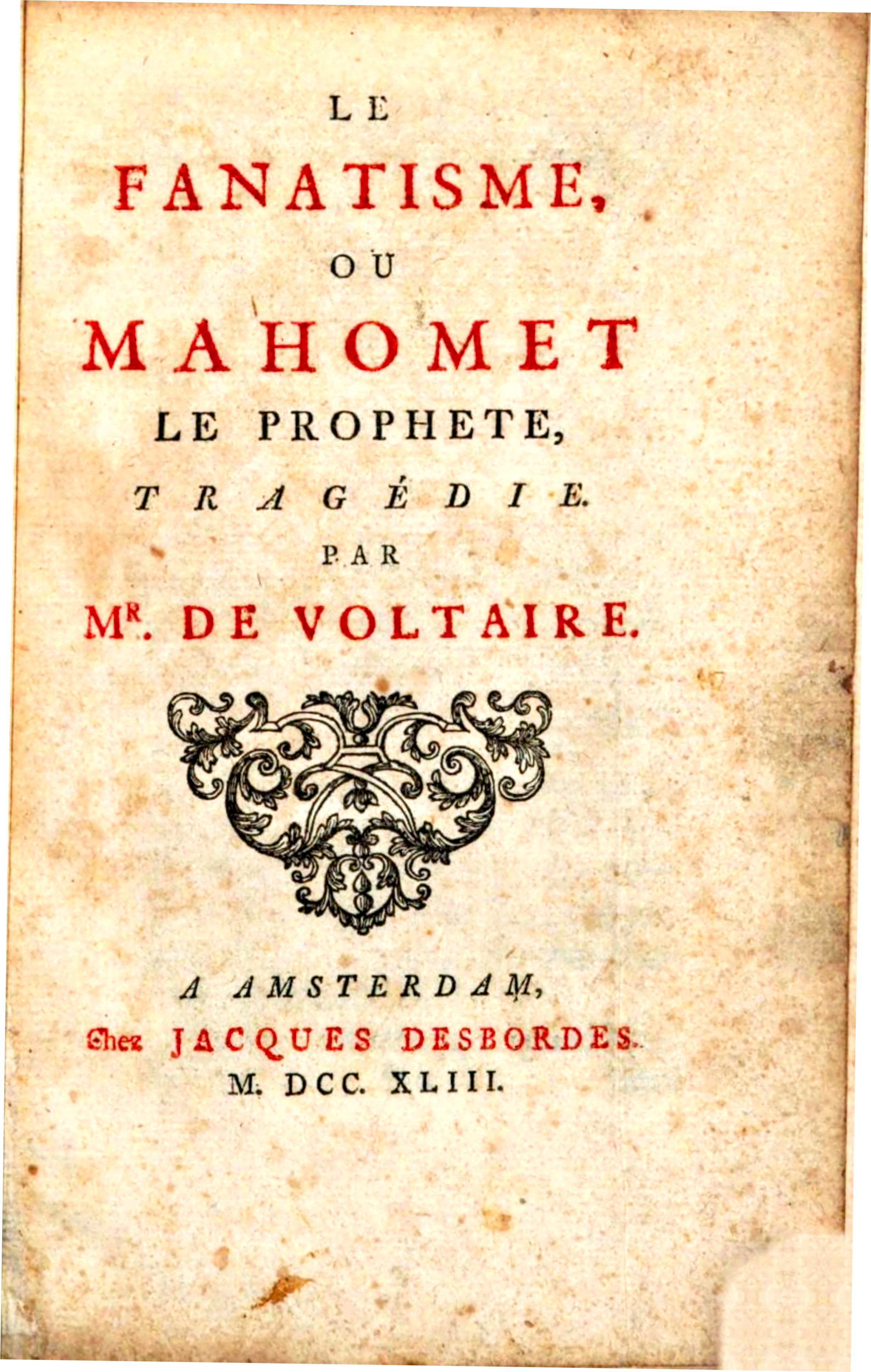 Title page of Le Fanatisme ou Mahomet le Prophète by Voltaire (1694-1778)